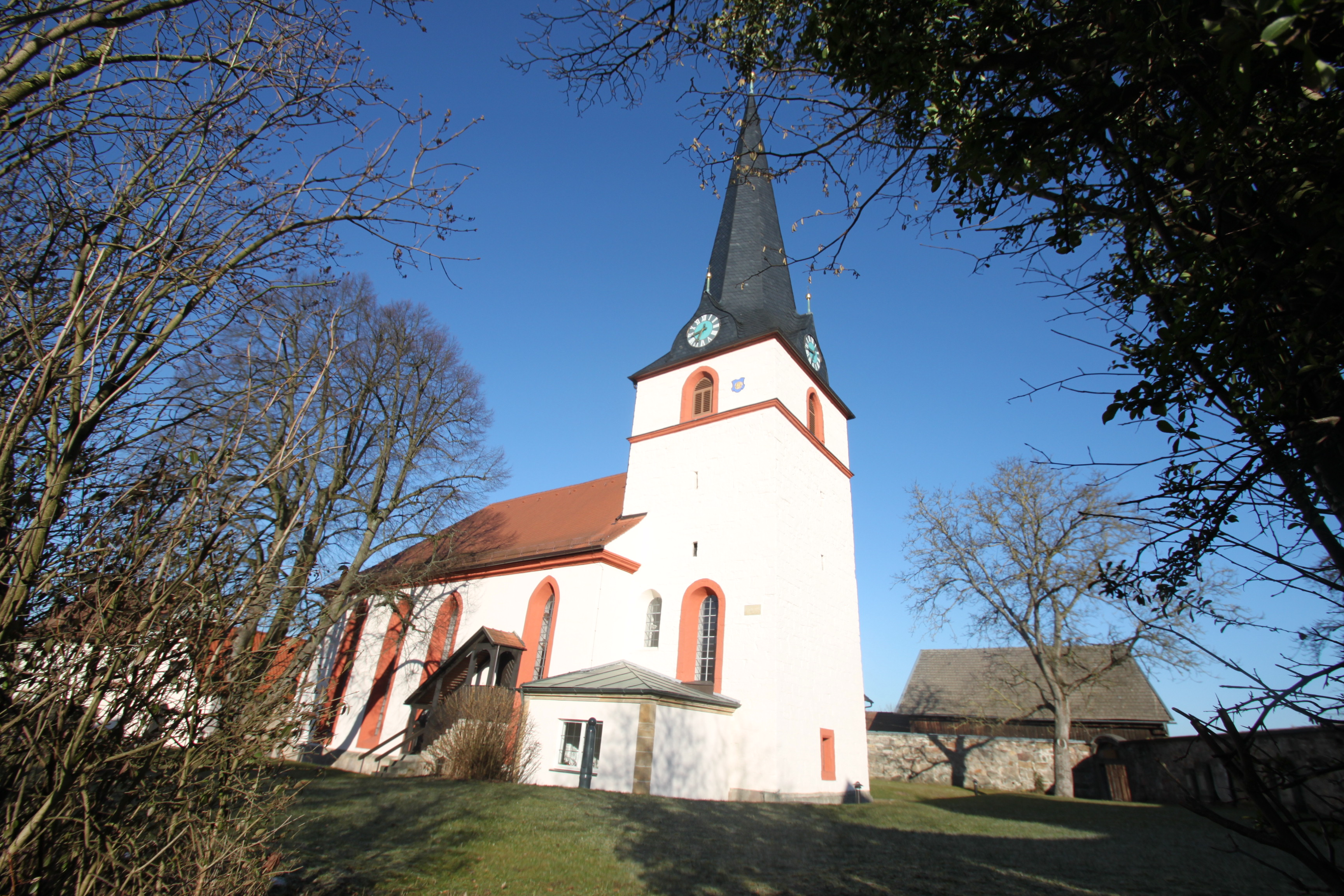 Church St. Aegidius in Melkendorf district of Kulmbach